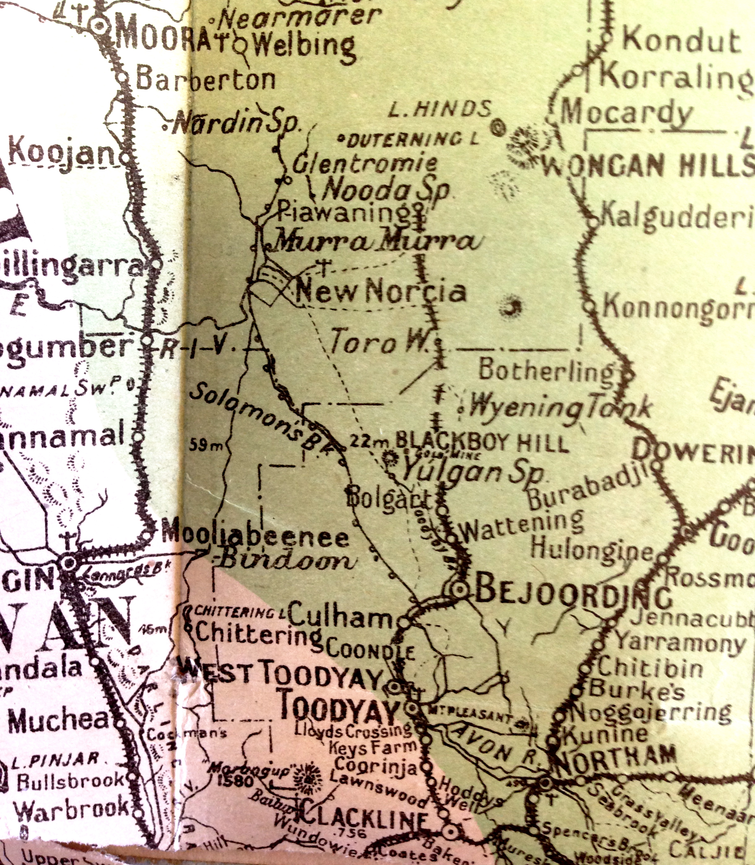 Map shewing the wheat growing areas of the State of Western Australia with Brockman's Line of rainfall as its Northerly & Easterly boundaries[1], Surveyor General's Dept.?, 1917 section of larger map to show Clackline - Bolgart line relationship with other lines and locations